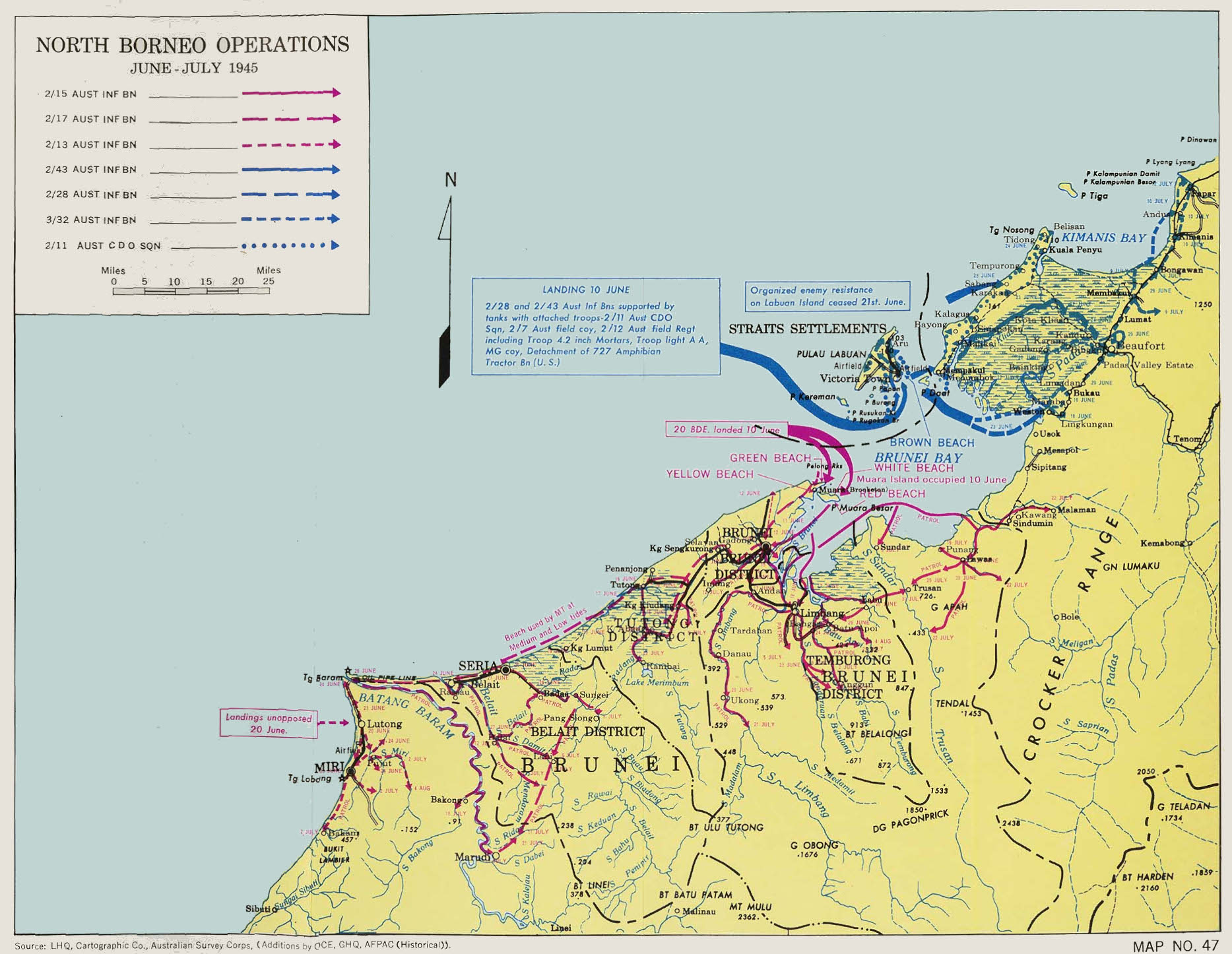 Map of Allied operations in North Borneo during June and July 1945, showing the main landings and the movements of the Australian Army infantry battalions involved in the campaign. The map was originally published in the book "Engineers of the Southwest Pacific, 1941-1945, Vol. 1: Engineers in Theater Operations. Reports of Operations (of the) United States Army Forces in the Far East, Southwest Pacific Area, Army Forces, Pacific" authored by the Office of the Chief Engineer, General Headquarters, Army Forces Pacific and published by the U.S. Govt. Print. Office in 1947.